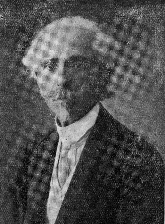 Georgios Sotiriadis